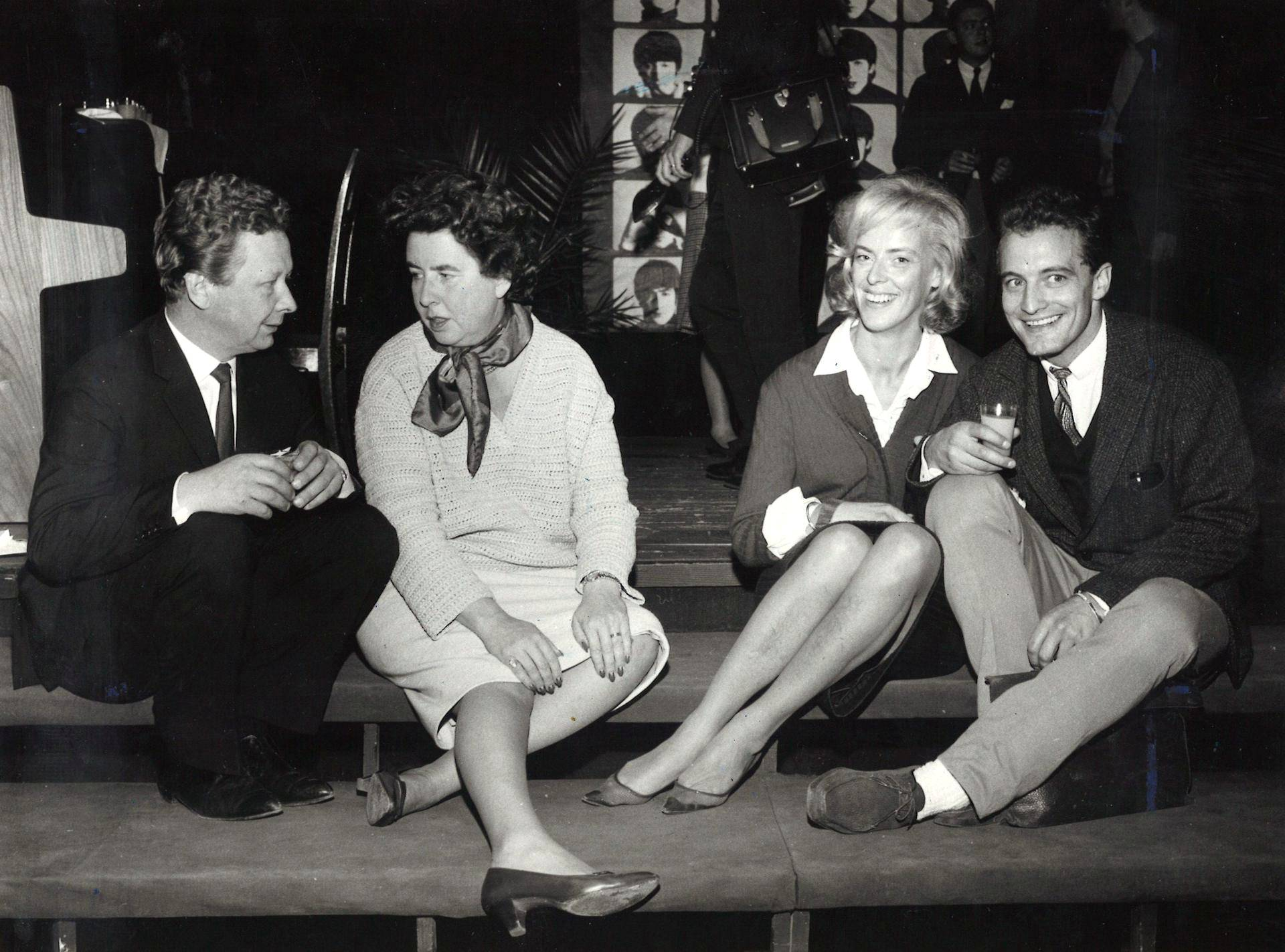 Photograph of cast and crew of Lilla Teatern, Helsinki: Lasse Pöysti, Vivica Bandler, Birgitta Ulfsson, and Gösta Bredefeldt, visiting from Sweden.